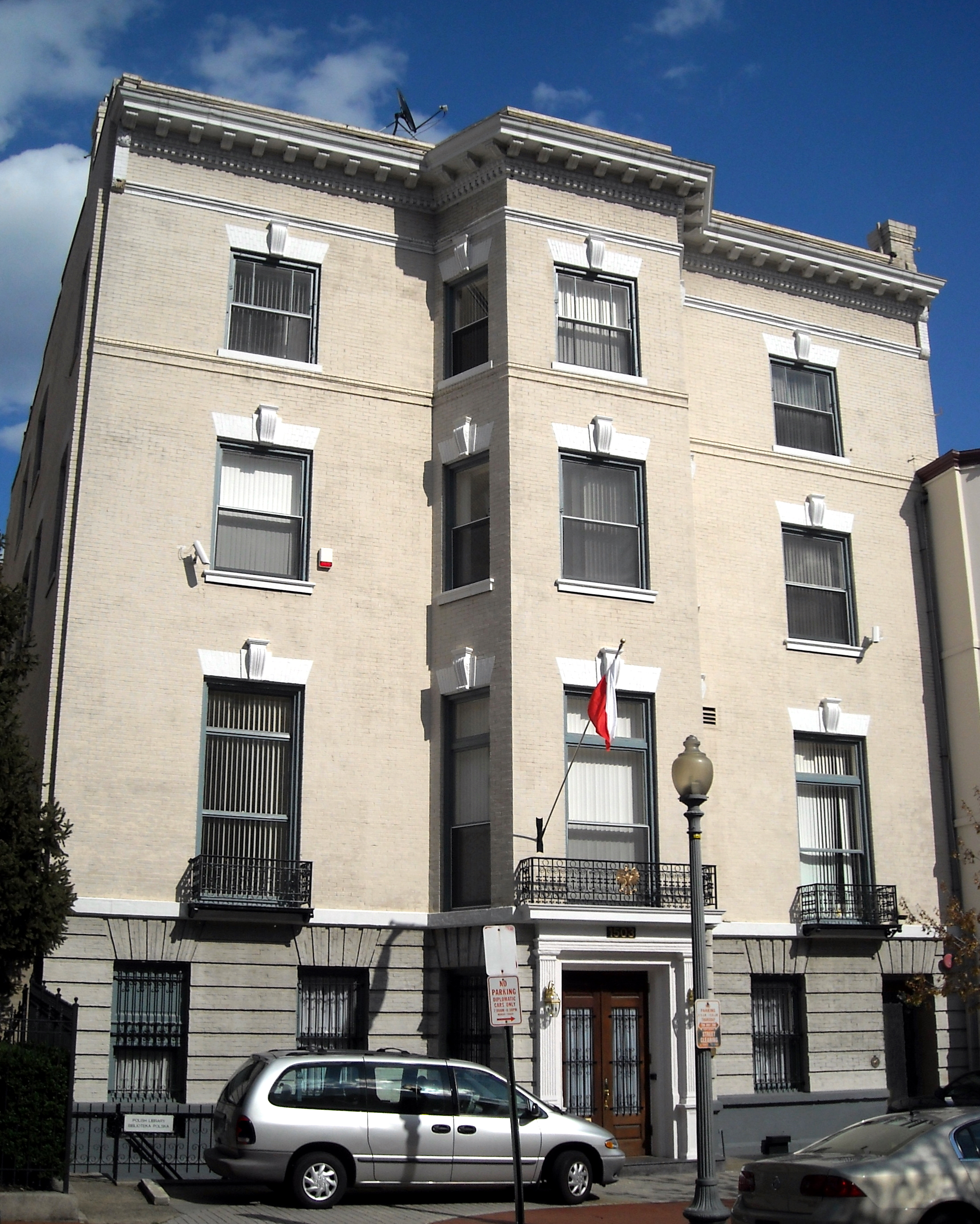 The Embassy of Poland, Economic Section and Polish Library located at 1503 21st Street, NW in the Dupont Circle neighborhood of Washington Constructed in 1889, the building is a contributing property to the Dupont Circle Historic District and valued at $7,160,180. Notable past owners of the building include the Art League of Washington, Delta Phi Epsilon (Alpha Chapter House), Editorial Research Reports, and the Washington Gallery of Modern Art.